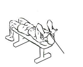 an exercise of triseps